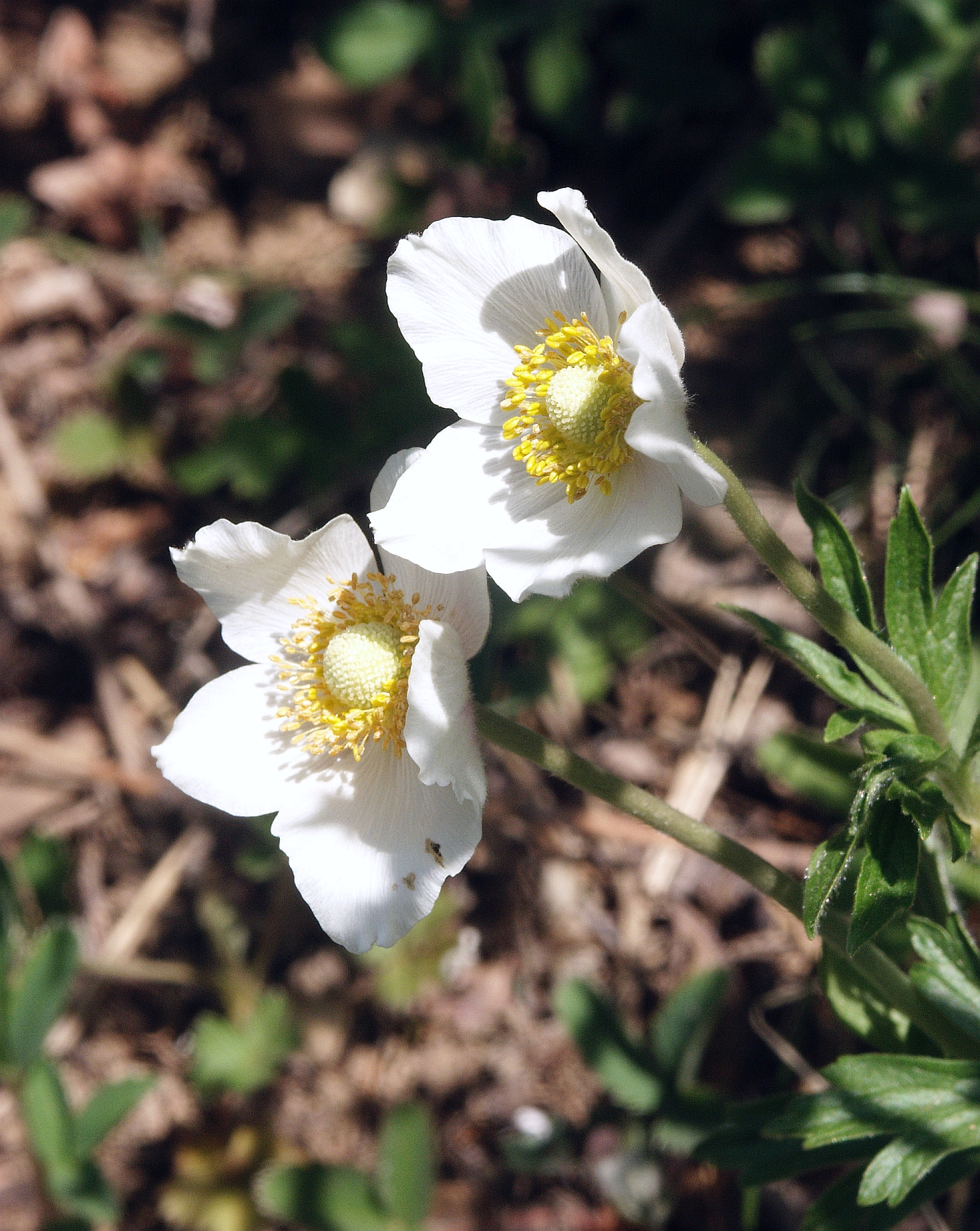 Anemone sylvestris, Mainfranken, Germany